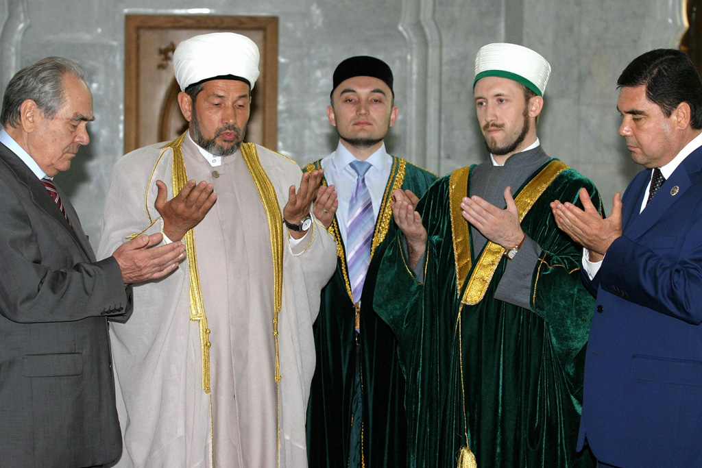 “Turkmen President Gurbanguly Berdymukhammedov in the Kul Sharif Mosque during his visit to Tatarstan”. Turkmen President Gurbanguly Berdymukhammedov (right) and Tatar President Mintimer Shaimiyev in the Kul Sharif Mosque, Kazan.